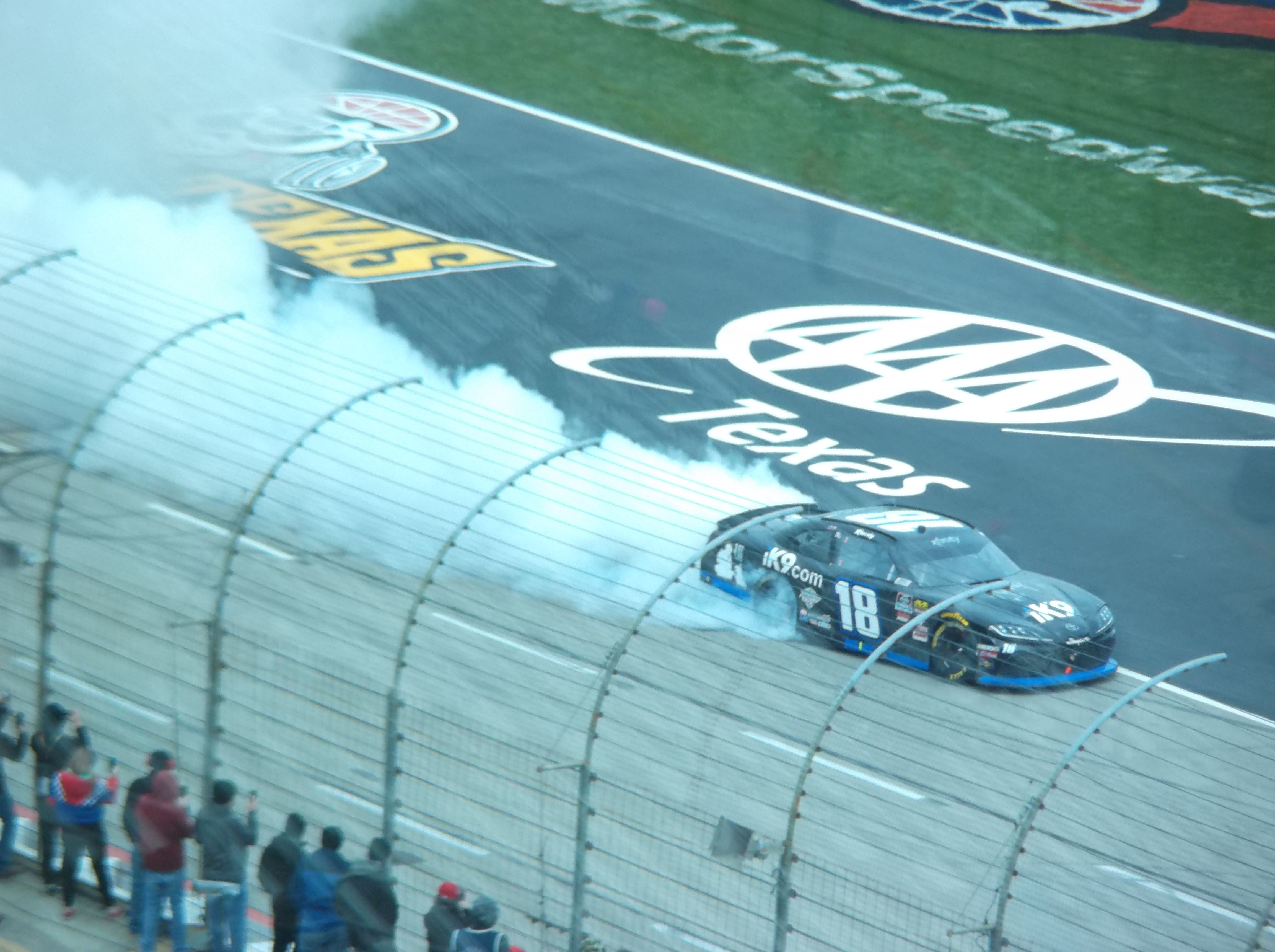 Kyle Busch celebrates his 95th NASCAR XFINITY Series win at the 2019 My Bariatric Solutions 300 at Texas Motor Speedway.